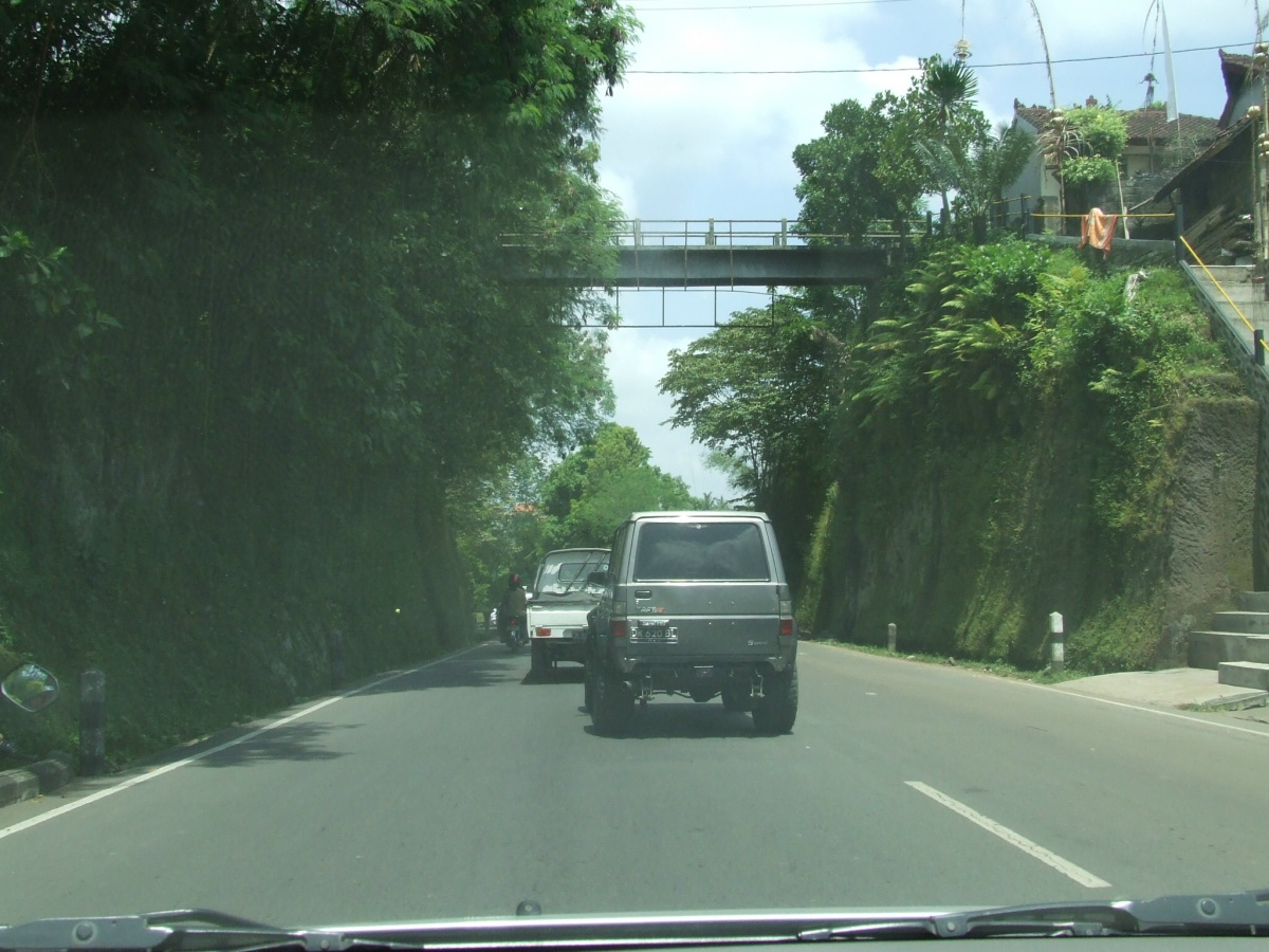 Aquæduct crossing a main road in Bali near Tabanan.